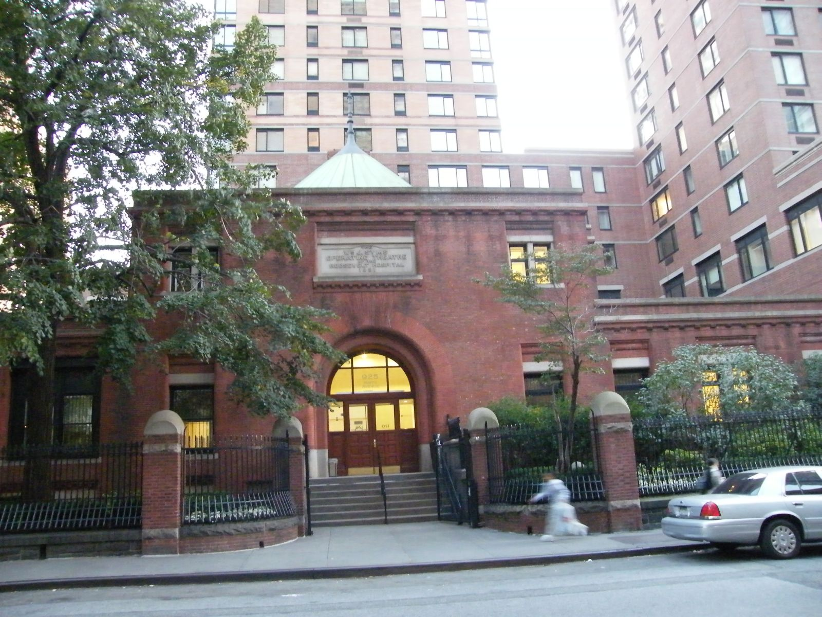 Roosevelt Hospital Theatre